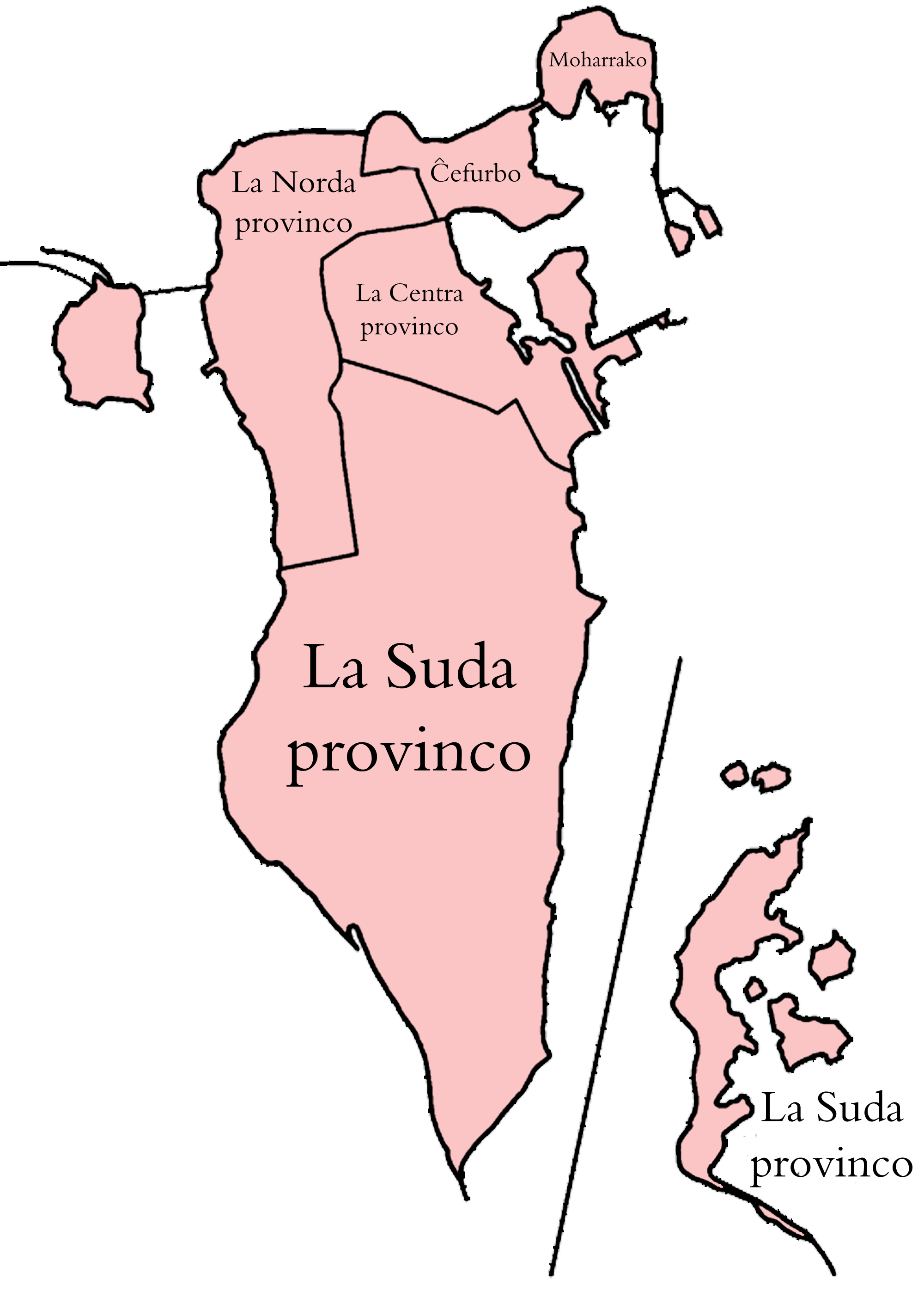 Governorates of Bahrain with Esperanto titles